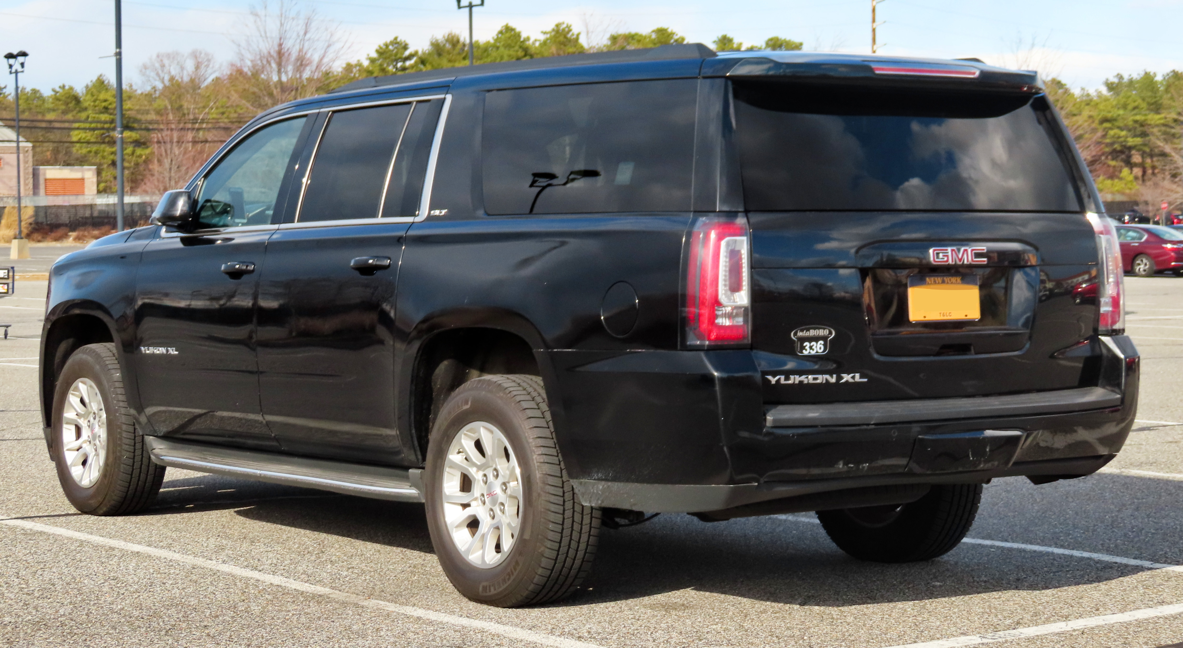 A 2015 GMC Yukon XL SLT photographed in Deer Park, New York, USA